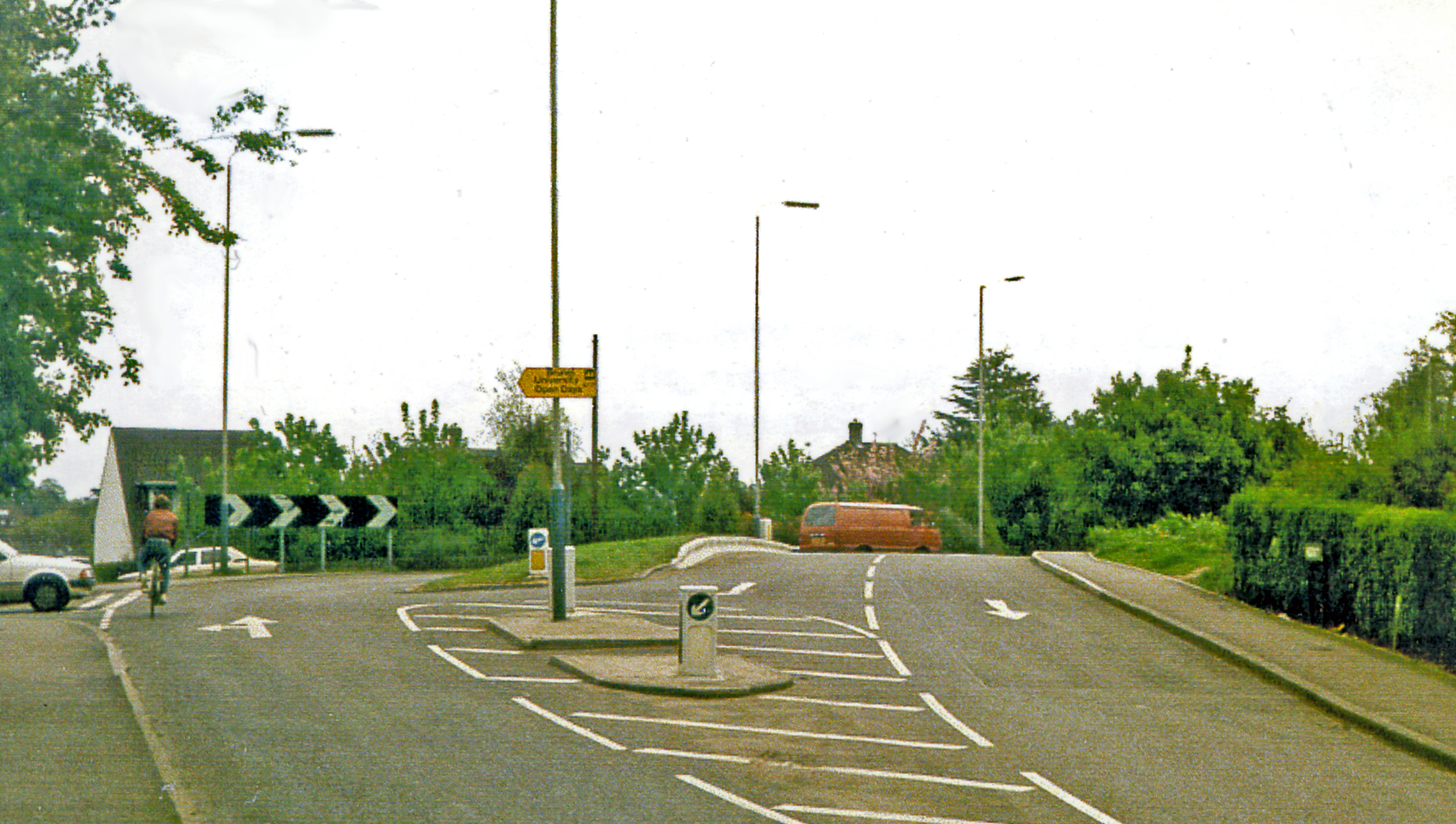 Site of Cowley station, 1986. View eastward, on Station Road (B470) at Uxbridge High Road (A408): ex-Great Western West Drayton (to right) - Uxbridge Vine Street (to left) branch. The station was on the right and closed 10/9/62 when the line was closed to passengers; it closed for freight as well on 13/7